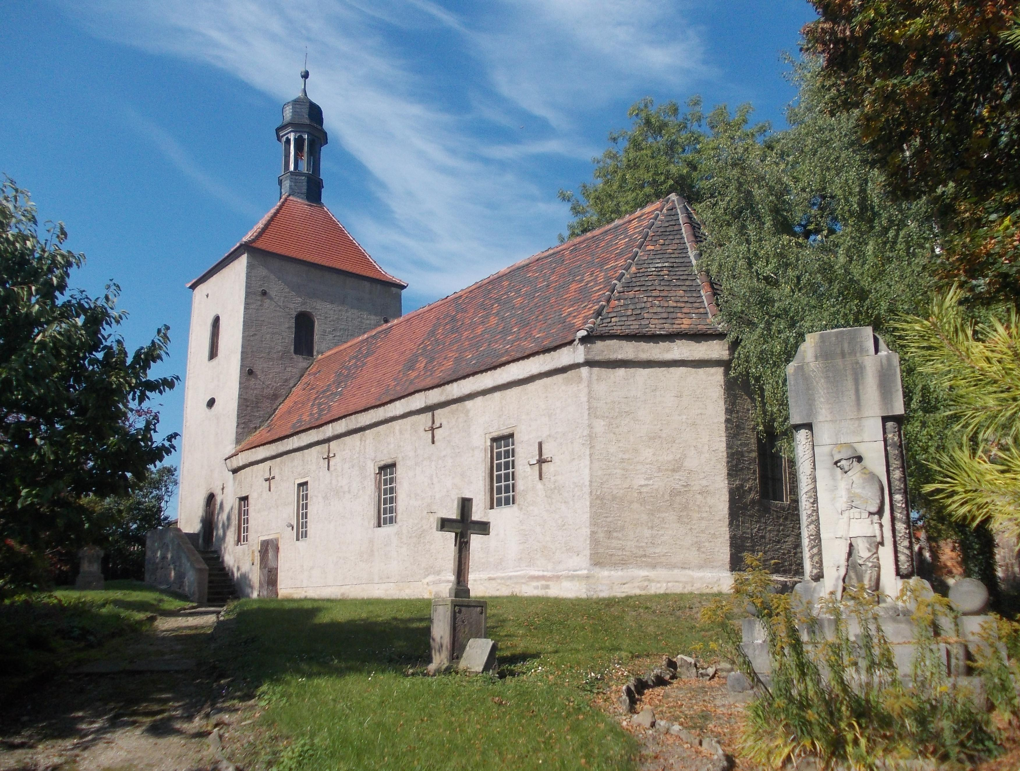 St. Nicholas Church in Kleineichstädt (Querfurt, district: Saalekreis, Saxony-Anhalt)